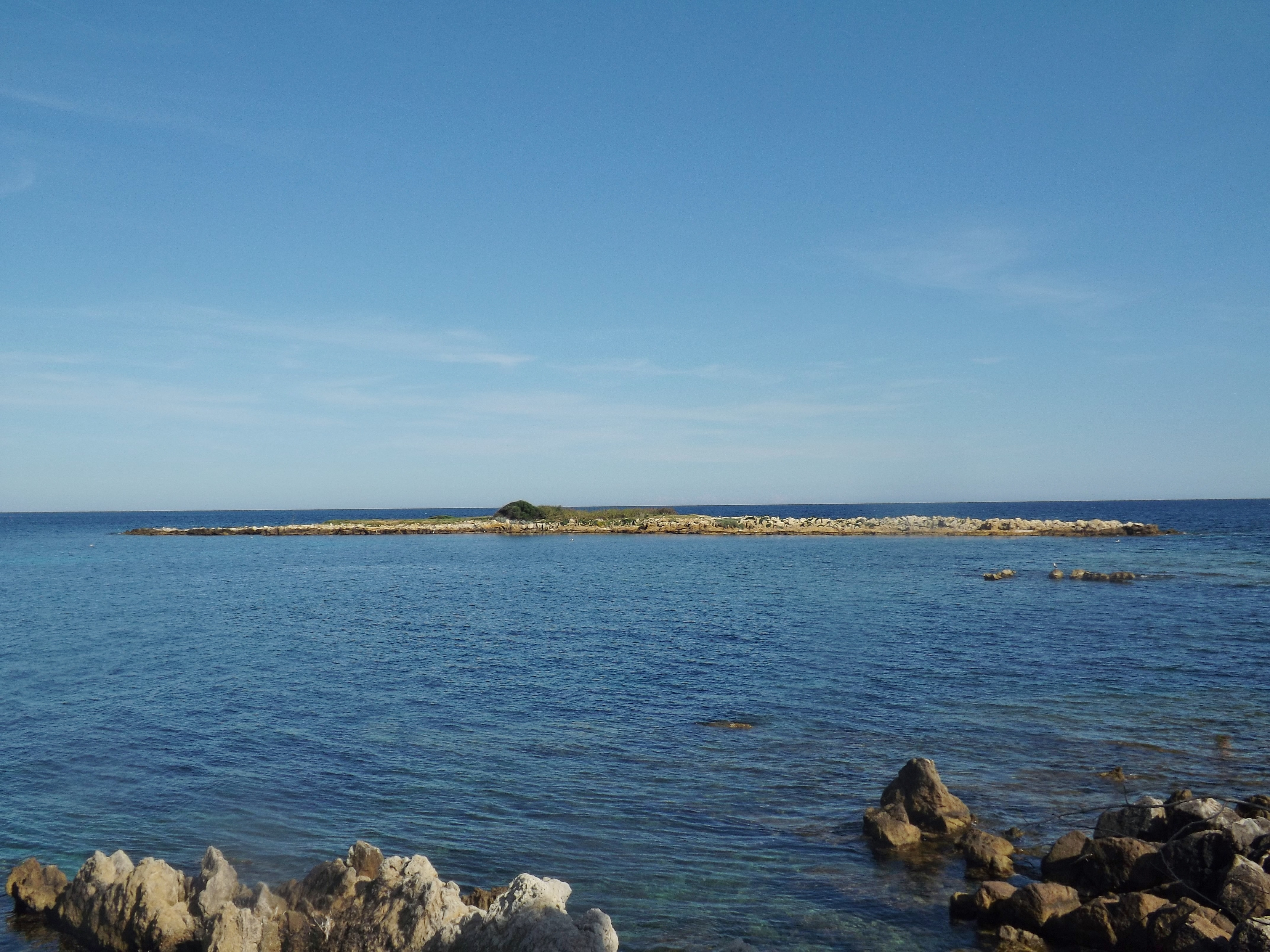 Sight of the îlot Saint-Ferréol island, seen from the île Saint-Honorat island, in the bay of Cannes, Alpes-Maritimes, France.